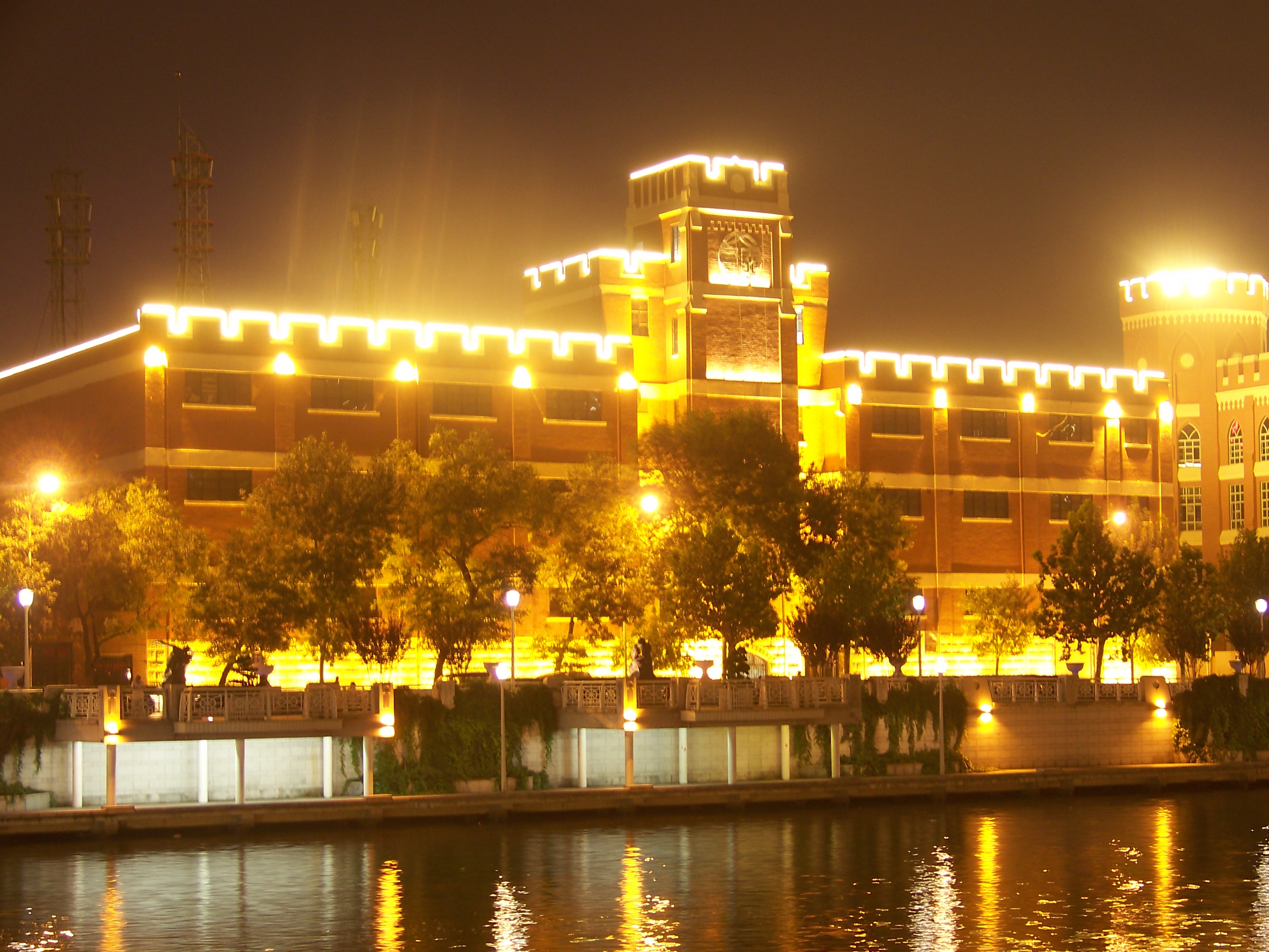 The Warehouse of the Former Continental Bank in Zhang Zizhong Lu No. 223, Heping District, Tianjin